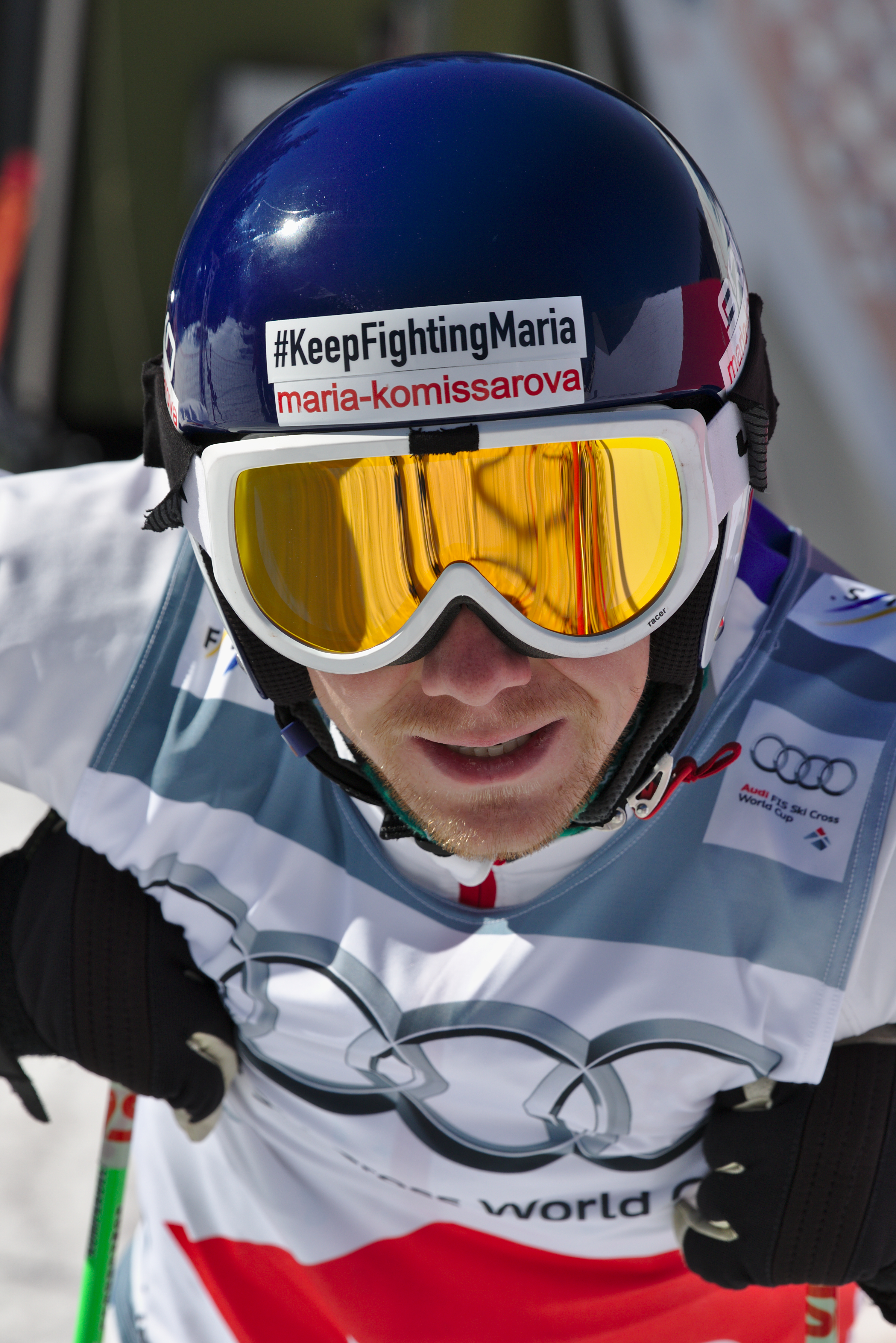 FIS Ski Cross World Cup 2015 - Megève - 20150313 - Egor Korotkov